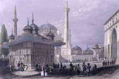 Fountain of Ahmed III